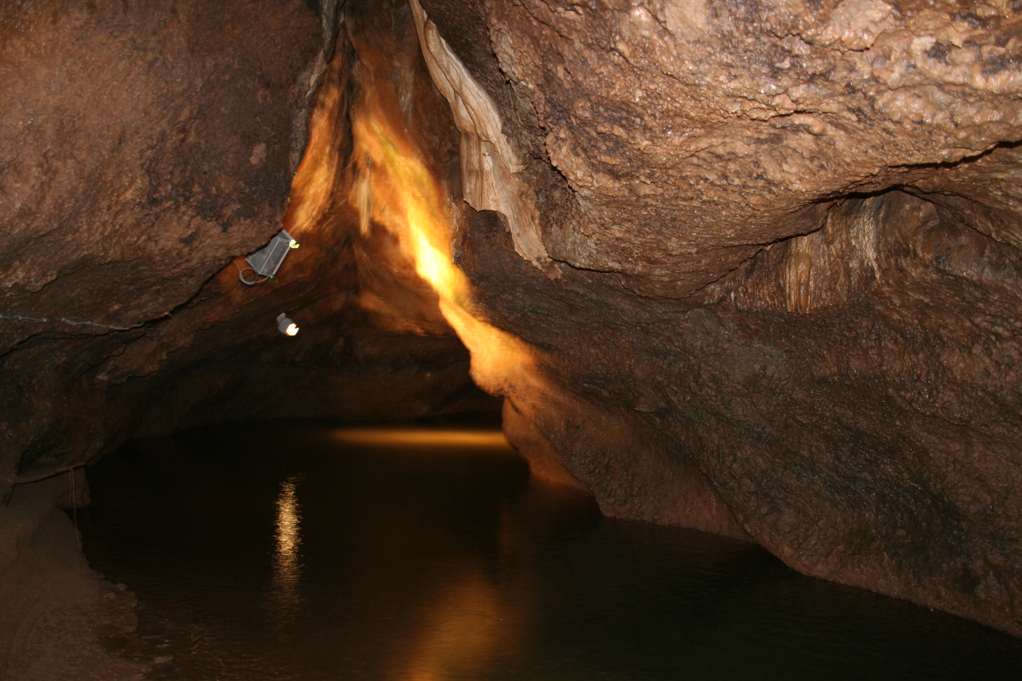 The subterranean river the Rubicon (Remouchamps Cave)